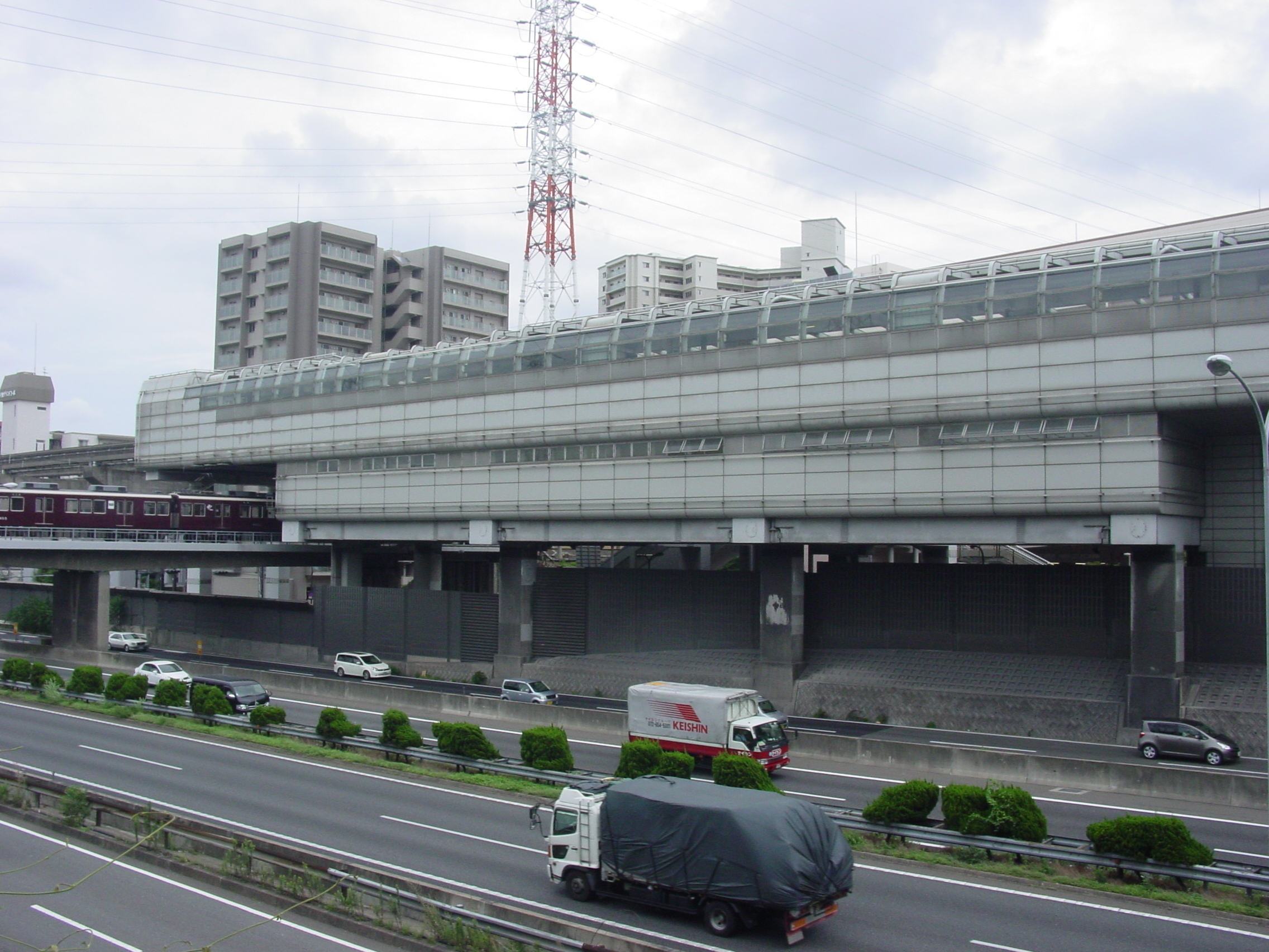 There are several "Yamada Stations" in Japan. This one is in Osaka prefecture, and of Osaka Monorail.